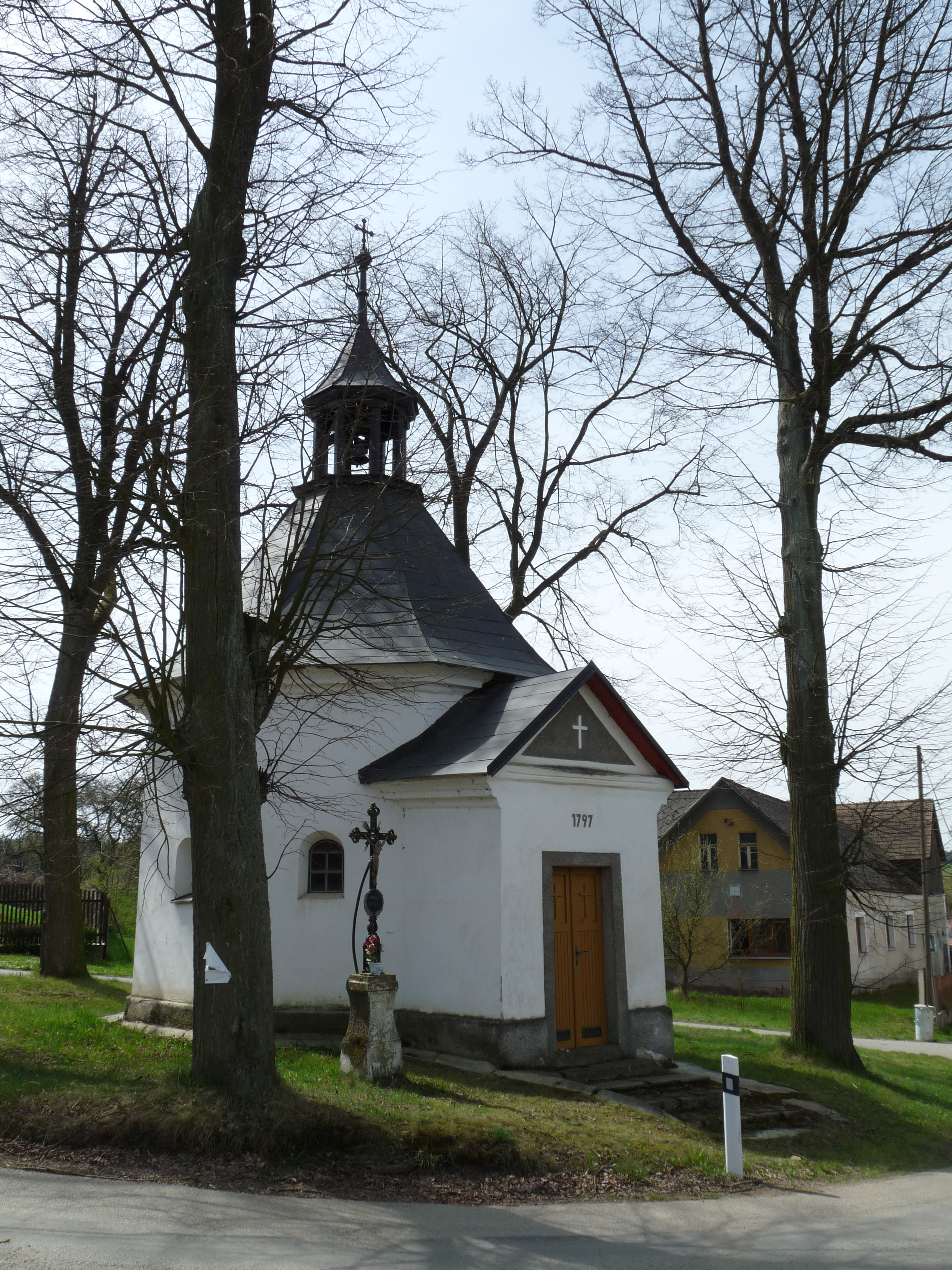 Chapel in the village of Litohošť, part of the town of Pelhřimov, Pelhřimov District, Vysočina Region, Czech Republic.